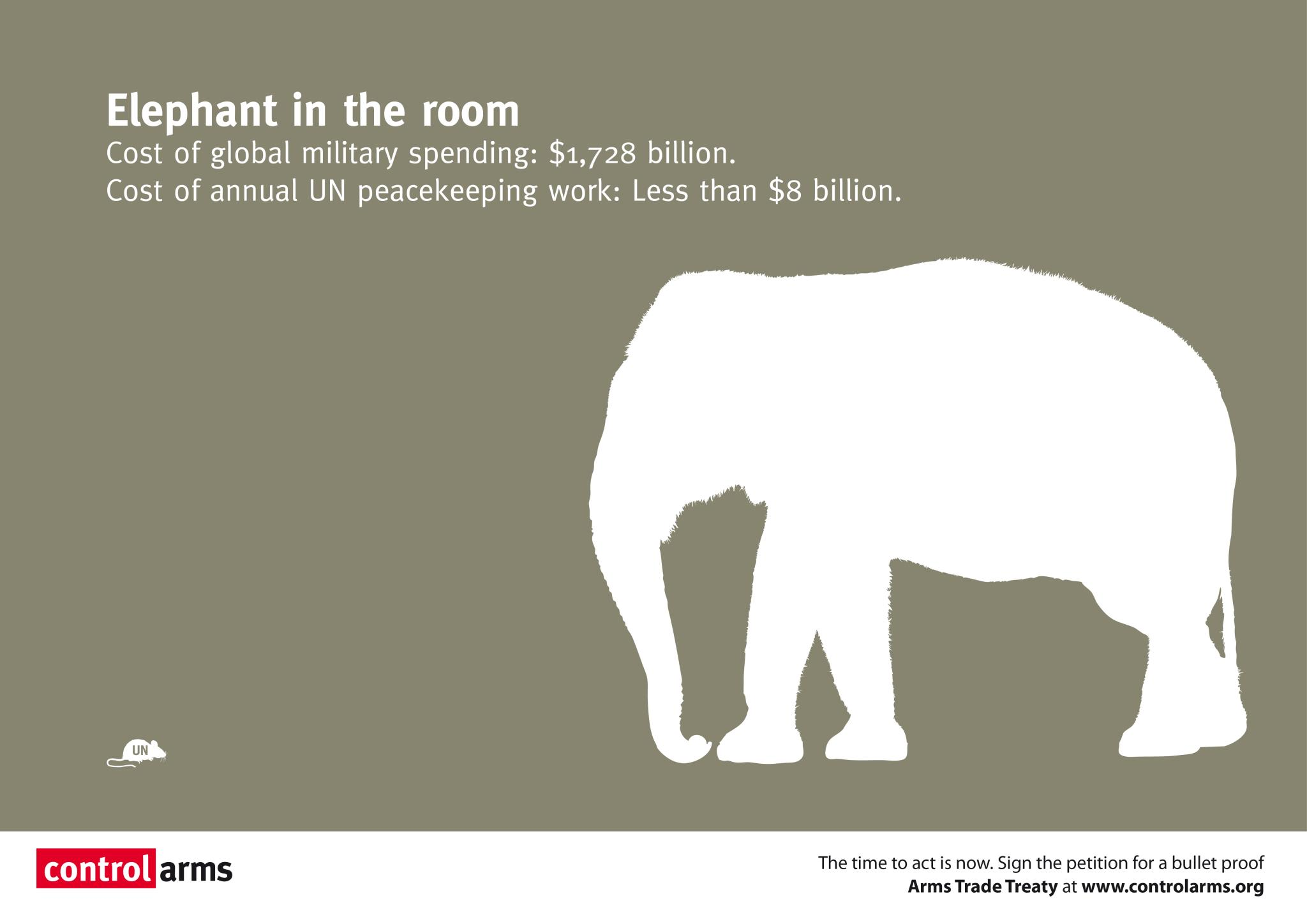 a poster titled "military expenditure - the elephant in the room"